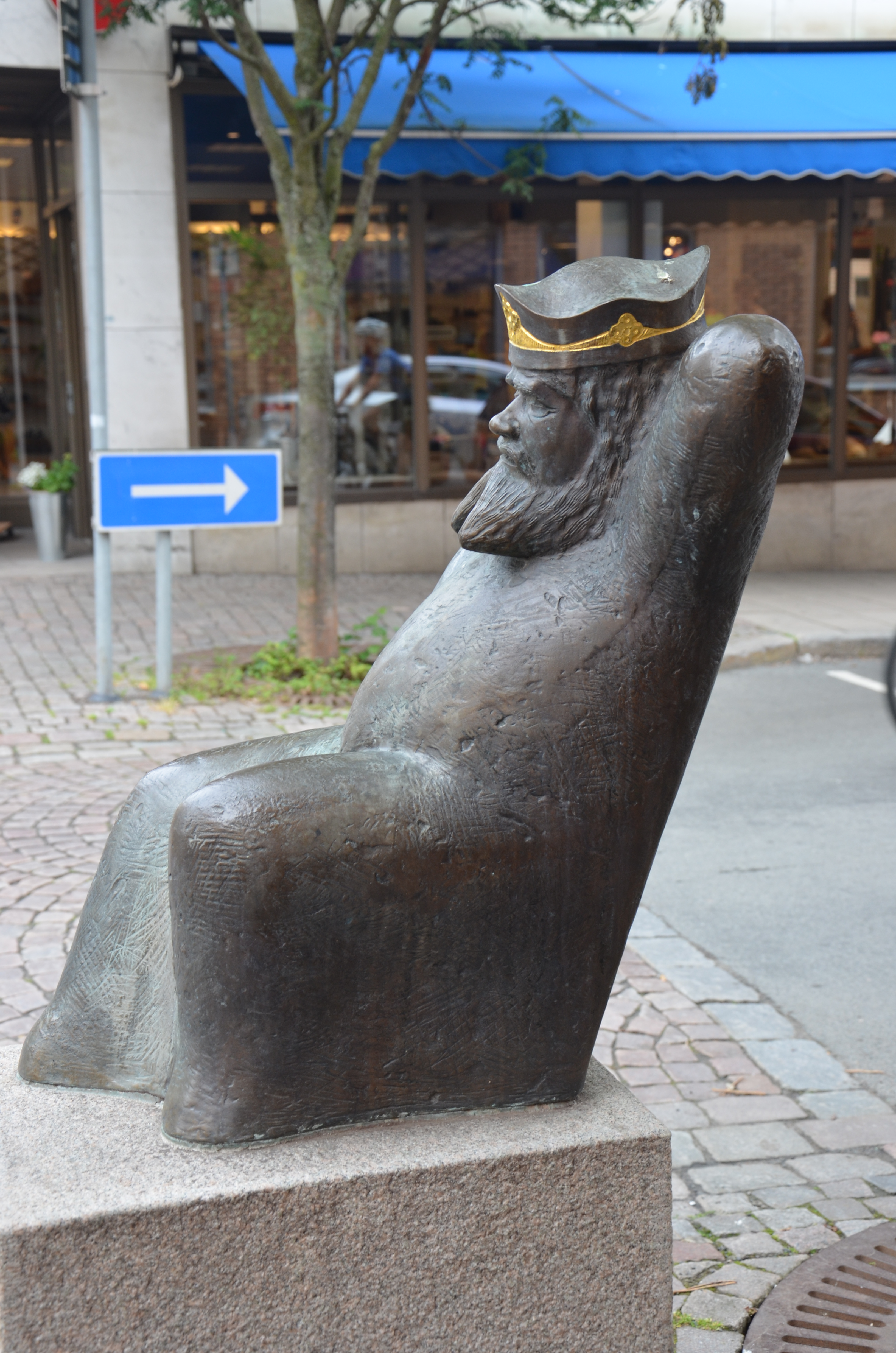 Rune Karlzons Magnus Ladulås, brons, 1984, Skolgatan i Jönköping. Inskription: "Magnus Ladulås vilade sig här 1284"